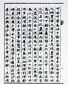 ”Ilseongrok(日省録)” Ulleungdo1807